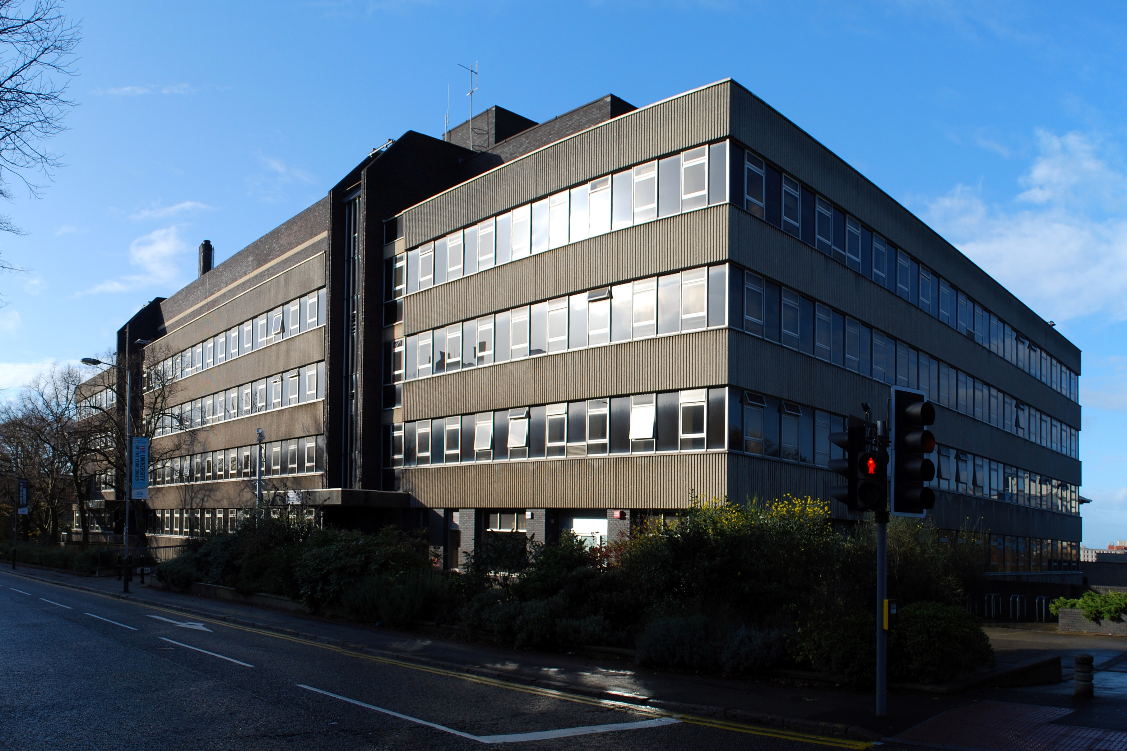 The Maurice Shock Medical Sciences Building at the University of Leicester, England